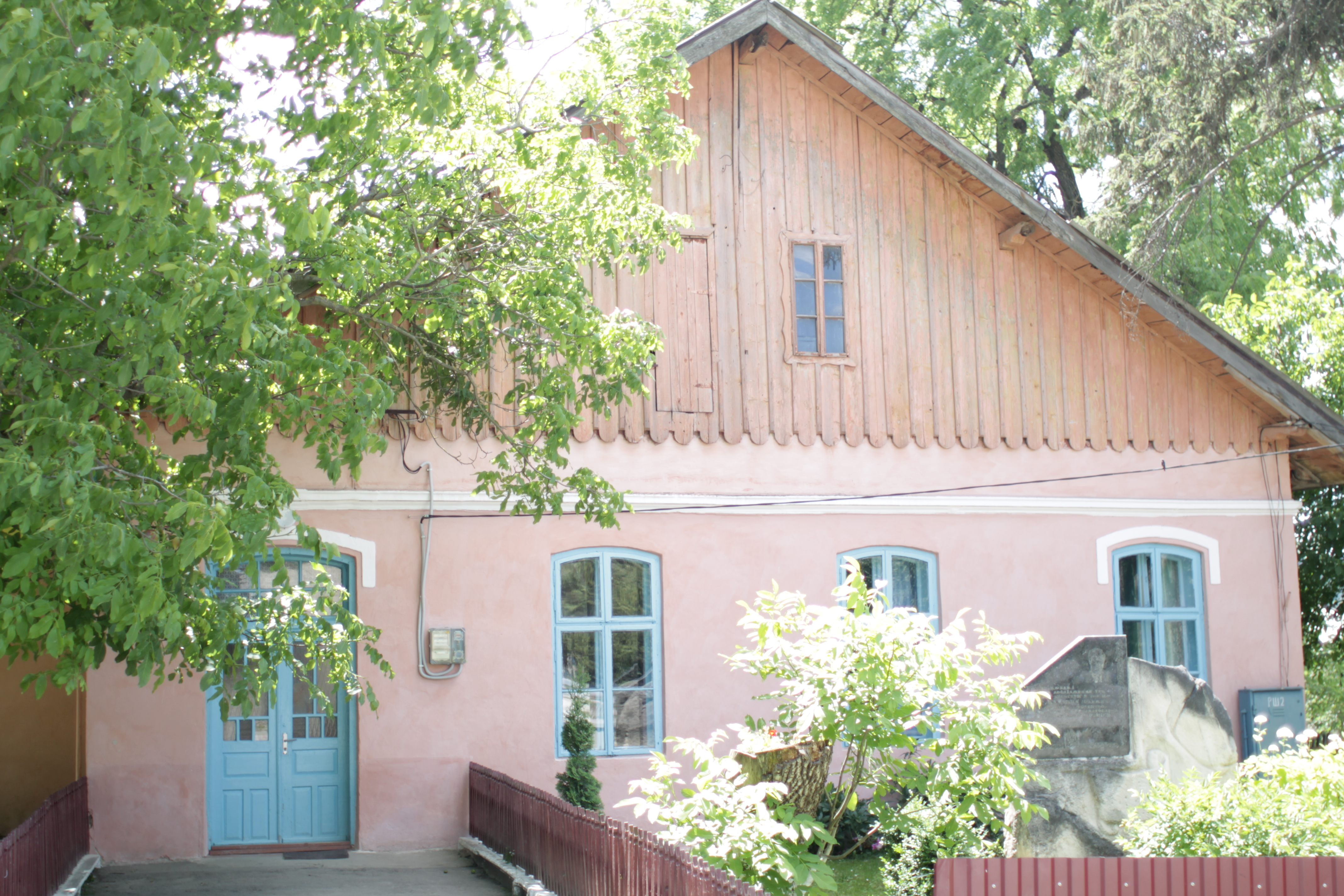 Більче Золоте, школа естетичного виховання,1